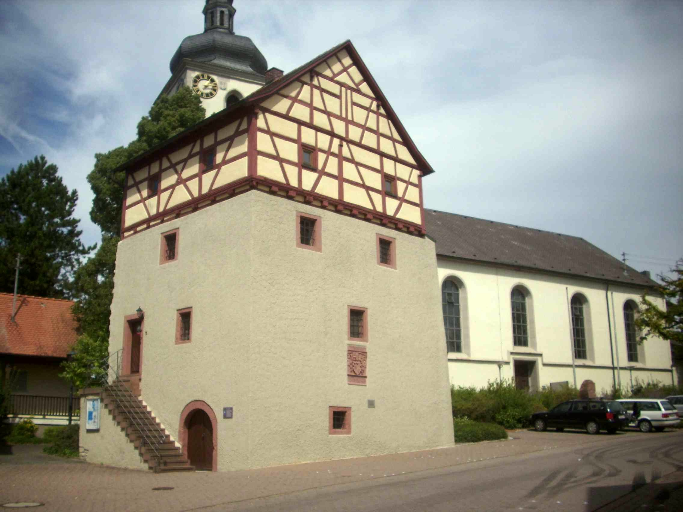 Königshofen (Church-Castle); District of Main-Tauber; Federal State of Baden-Württemberg; Germany Build in the 14th century; later changes; of special interest: massive church-tower; Former Gaden church-castle. A massive storage house with half-timbered structure and basement in stone reconstructed